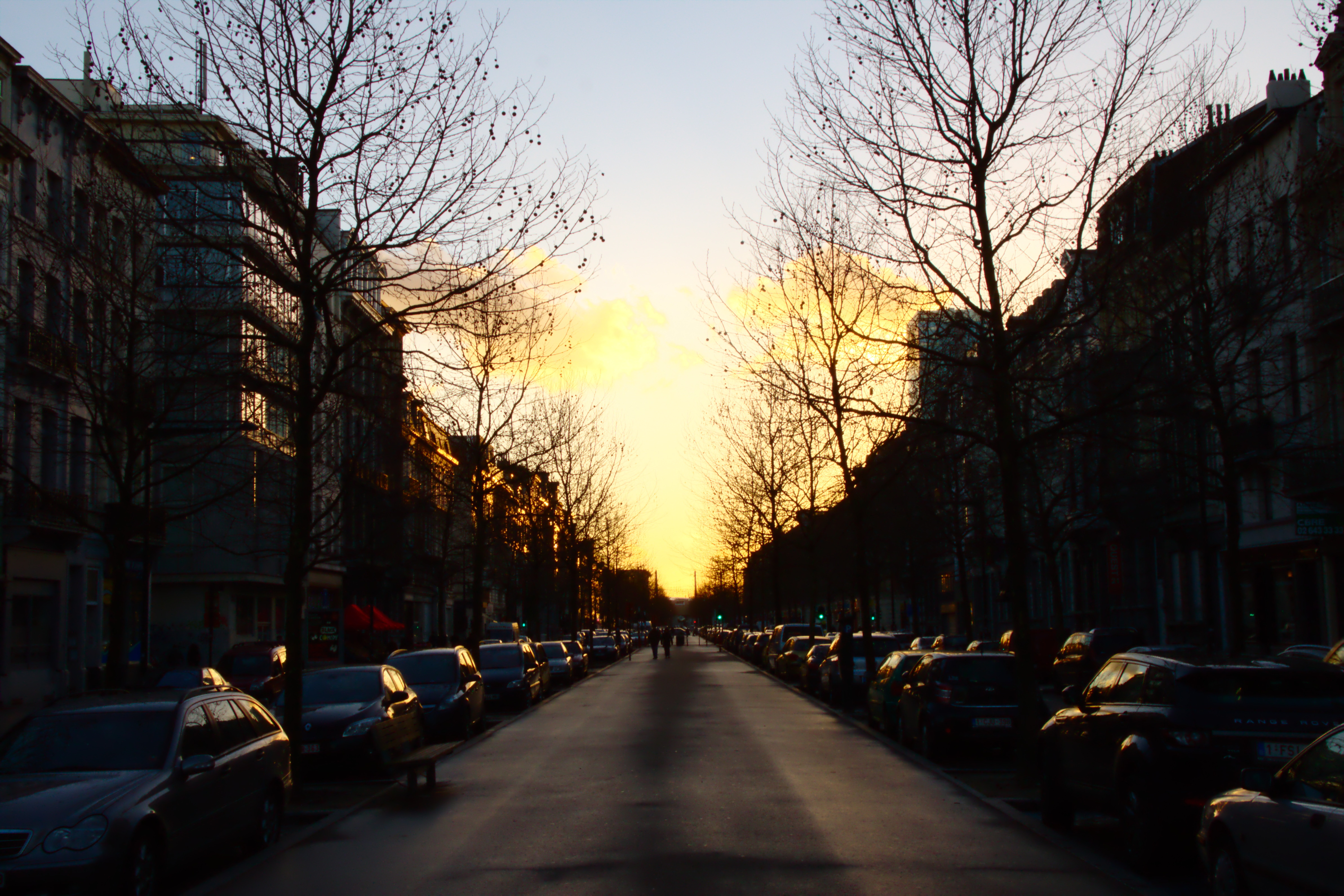 An evening view of the Stalingrad Avenue, Brussels, Belgium